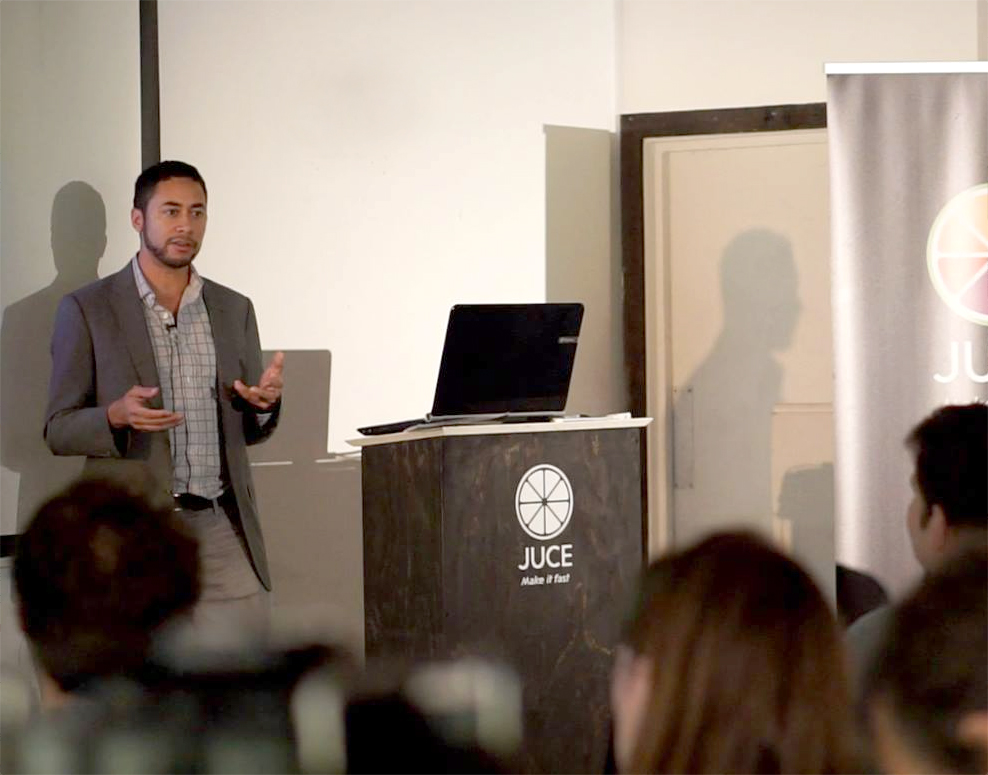 This photographic image was taken by Wikipedia user DMWare, and is owned specifically and wholly by myself, DMWare, who has full and complete rights to the image. It is being used for the Gebre Waddell entry I am creating on Wikipedia, with said full rights to the image. I am releasing this image into the public domain with no restrictions.